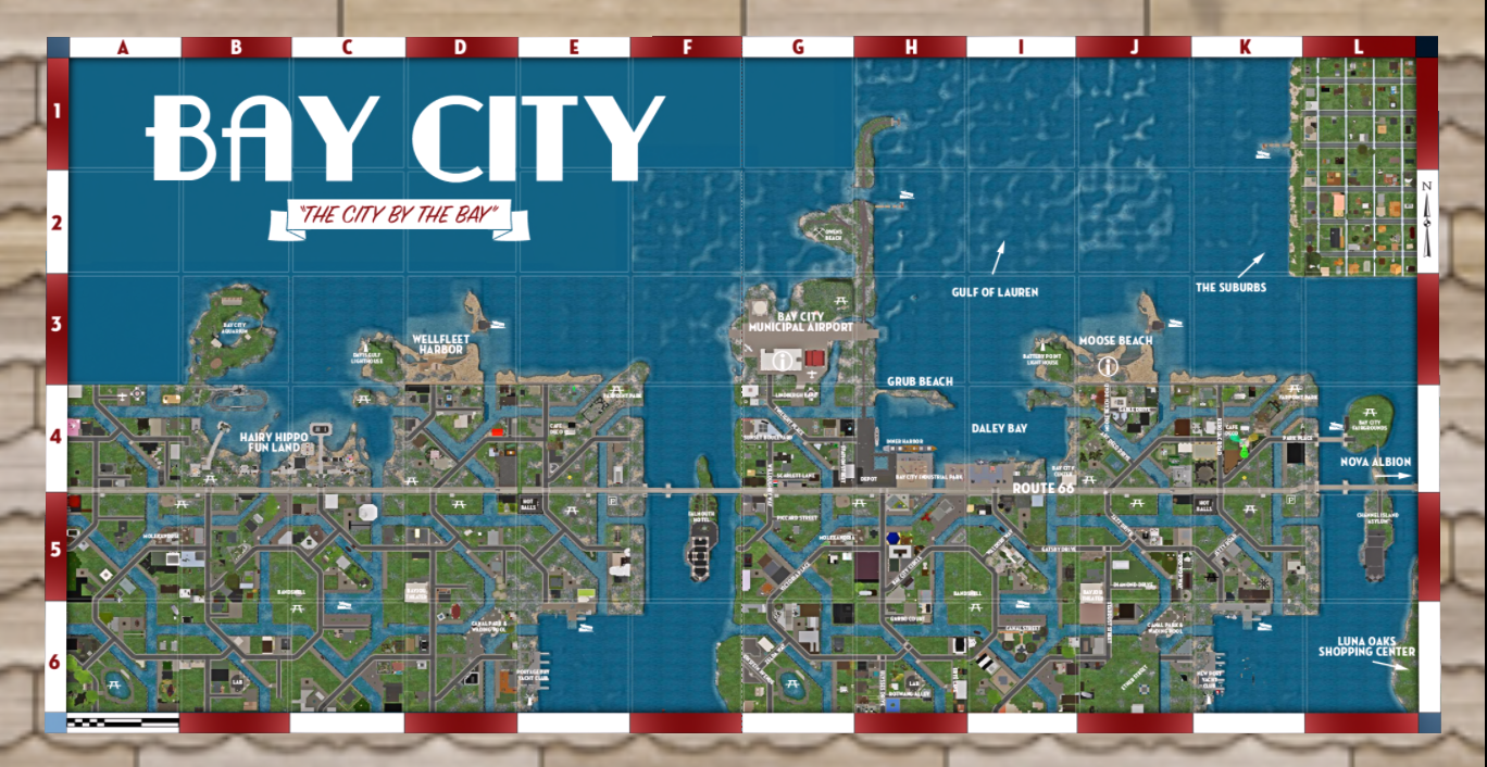 This is a map over Bay City, a big virtual city in Second Life. This map lies in the region Moose Beach where residents (users as they are called in Second Life) can set as their home. The small text in the map can unfortunately not really be seen, because I didn't know that you can make the pictures bigger. Photographed 14 July 2013 in Second Life and uploaded 14 December 2013 in Wikimedia Commons.